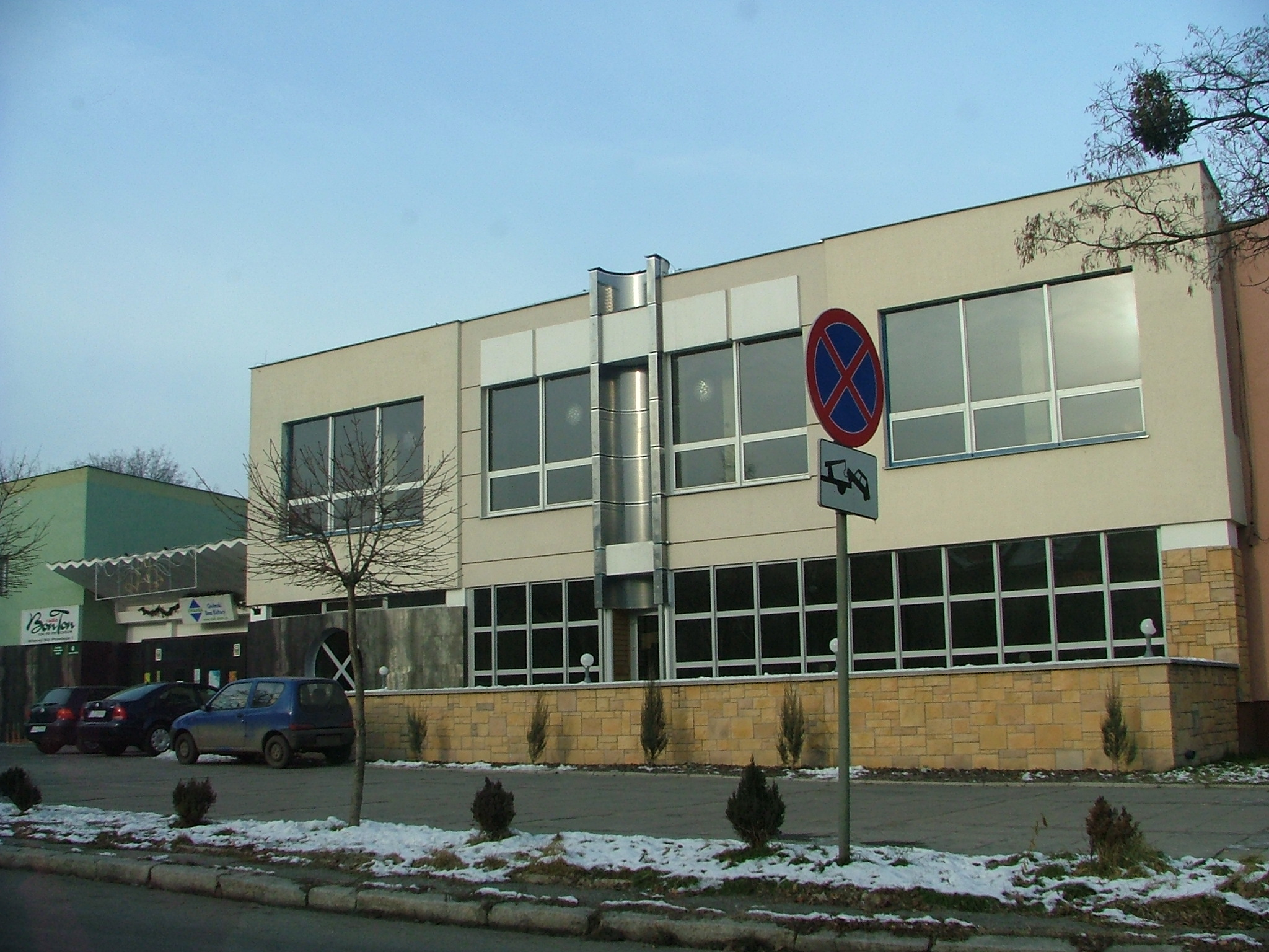 Poland, Tysiąclecia Państwa Polskiego Square in Chełm